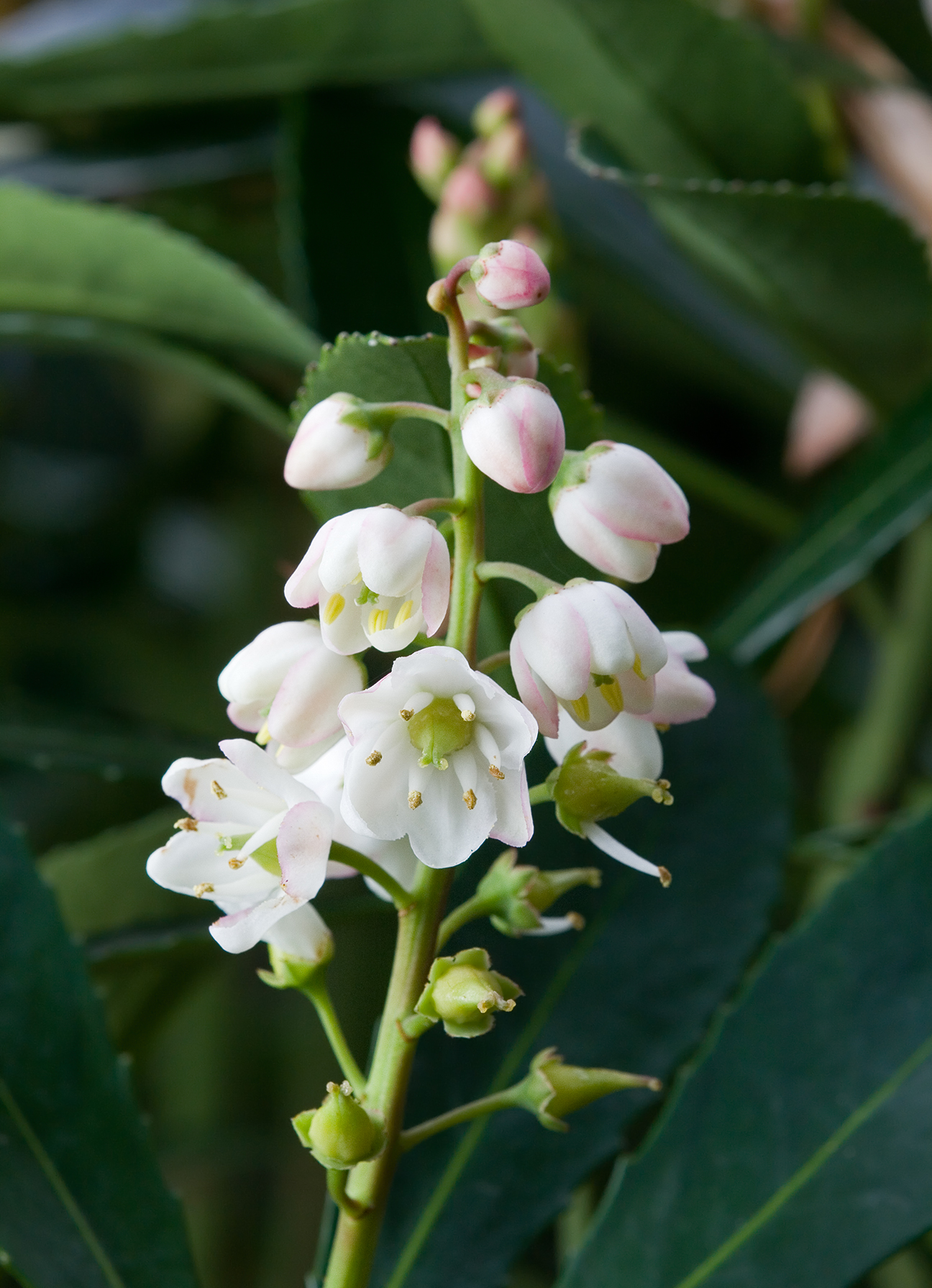 Anopterus glandulosus, Royal Tasmanian Botanical Gardens, Tasmania, Australia Camera data Camera Canon EOS 400D Lens Tamron EF 180mm f3.5 1:1 Macro Flash Shoot through umbrella left Focal length 180 mm Aperture f/9 Exposure time 1/30 s Sensivity ISO 400